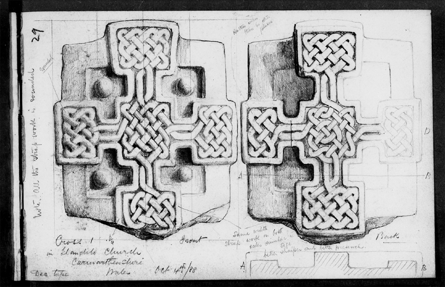 Description: Sketch of Celtic cross from St. Teilo church, Llandeilo by an officer of the Ancient Monuments Inspectorate, headed by General Pitt Rivers. [Either Reader or CW Gray] Date: 4th October 1888 Our Catalogue Reference: WORK 39/4 This image is from the collections of The National Archives. Feel free to share it within the spirit of the Commons. For high quality reproductions of any item from our collection please contact our image library.